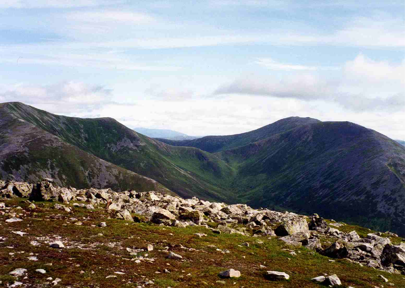 Personal photograph taken by Mick Knapton in July 1995